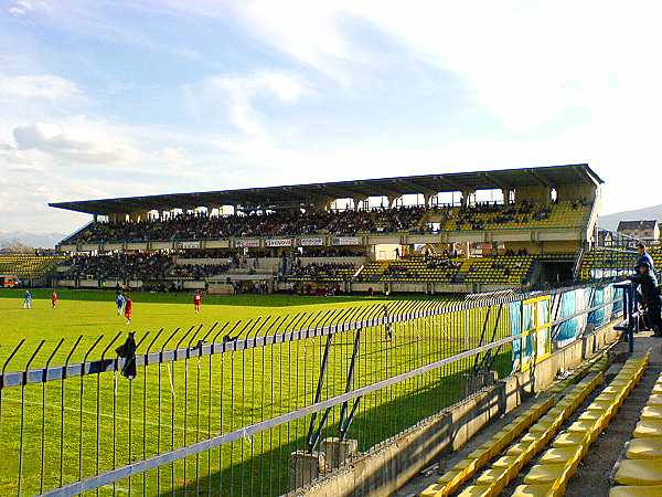 a personal photo, Stadium Tetovo.jpg